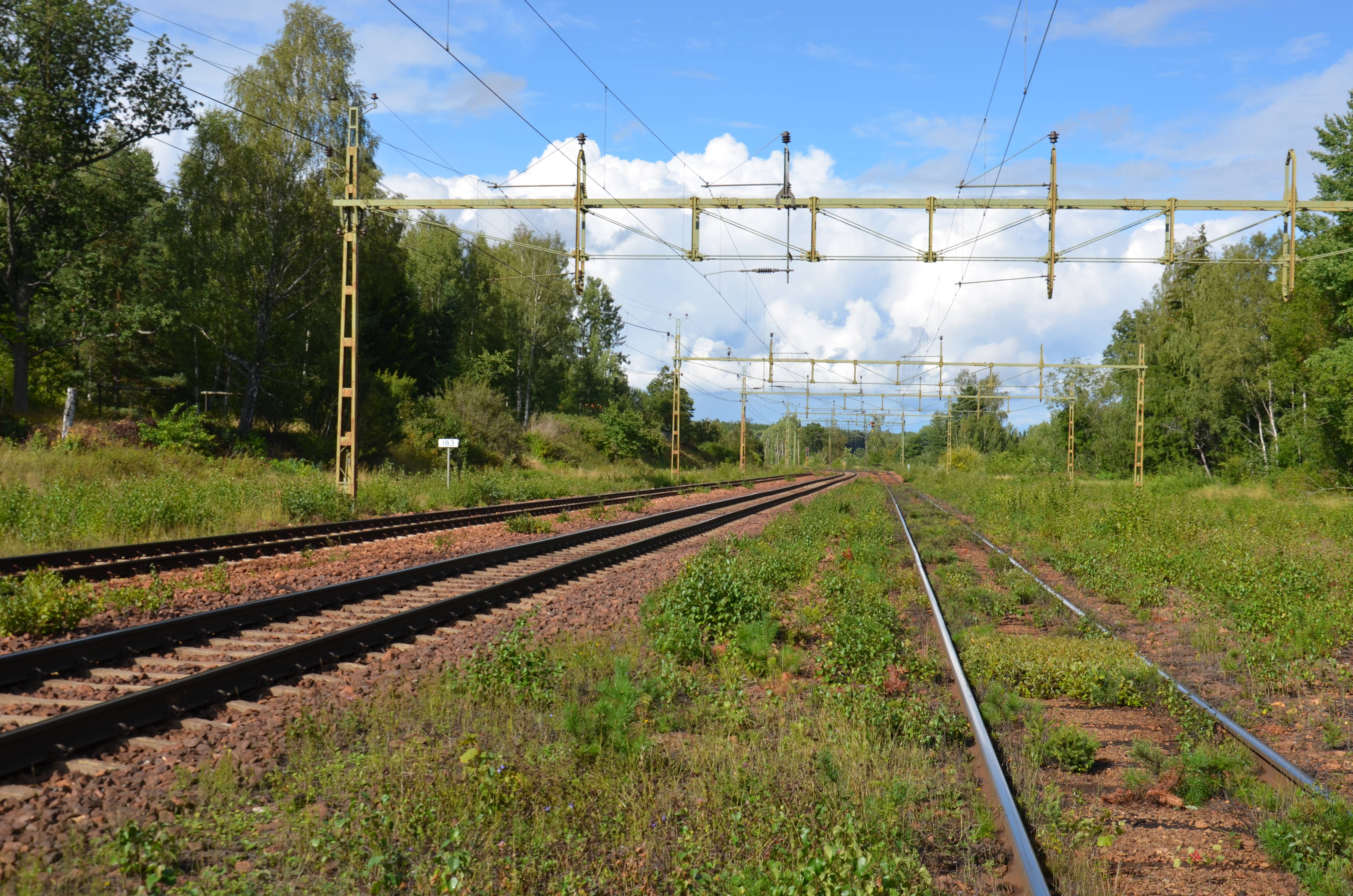 Spår, Snytens stationsområde